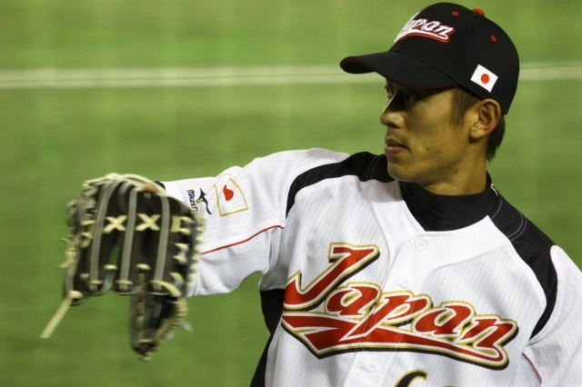 Yoshifumi Okada, outfielder of the Japan national baseball team, at Tokyo Dome.